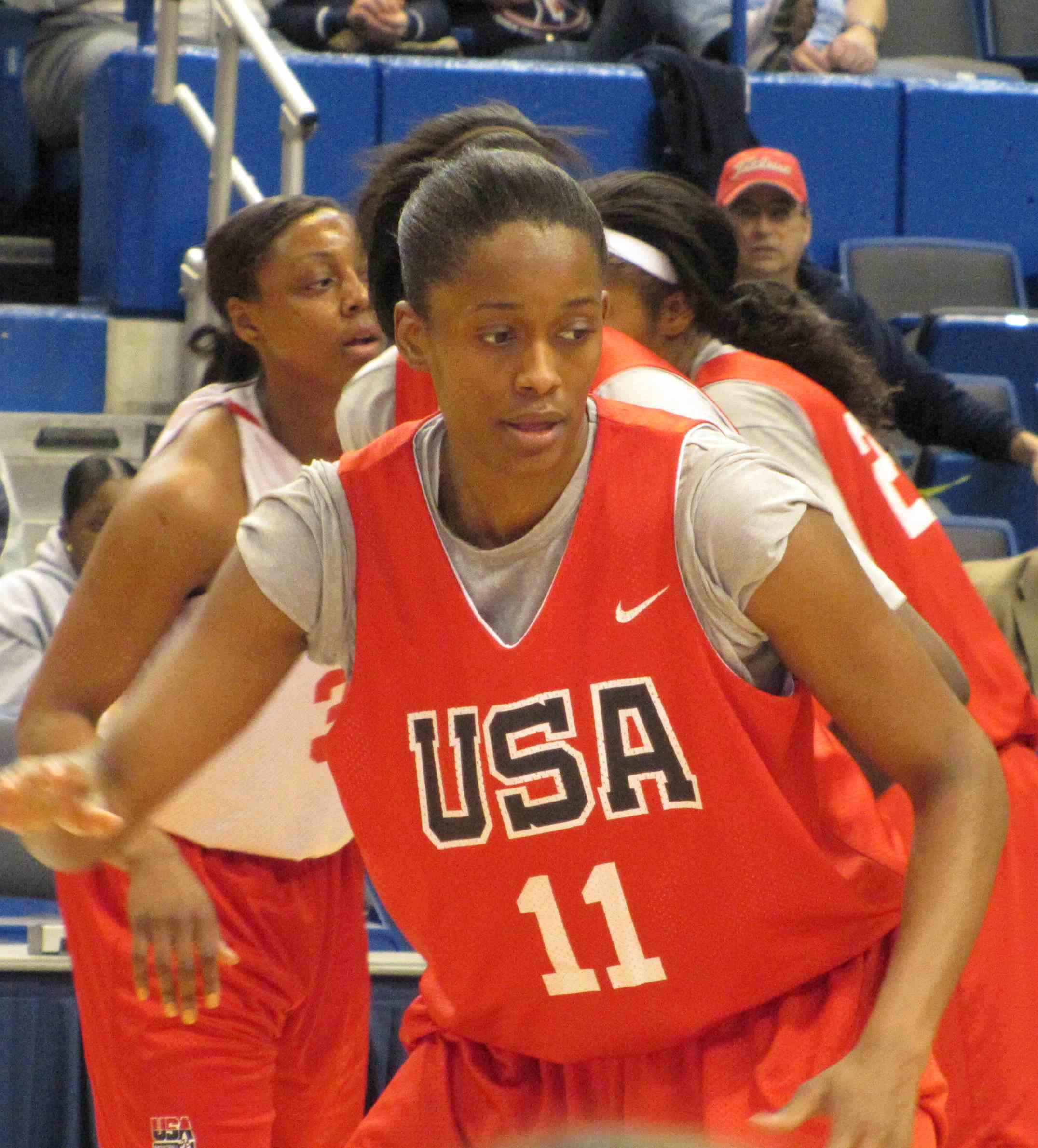 USA Training session for players on the USA National team and USA Select team, beginning training in preparation for the FIBA World Championship. Training took place 14-18 April, culminating in a red-white scrimmage on 18 April at the Veterans Memorial Coliseum in the XL Center, Hartford Connecticut